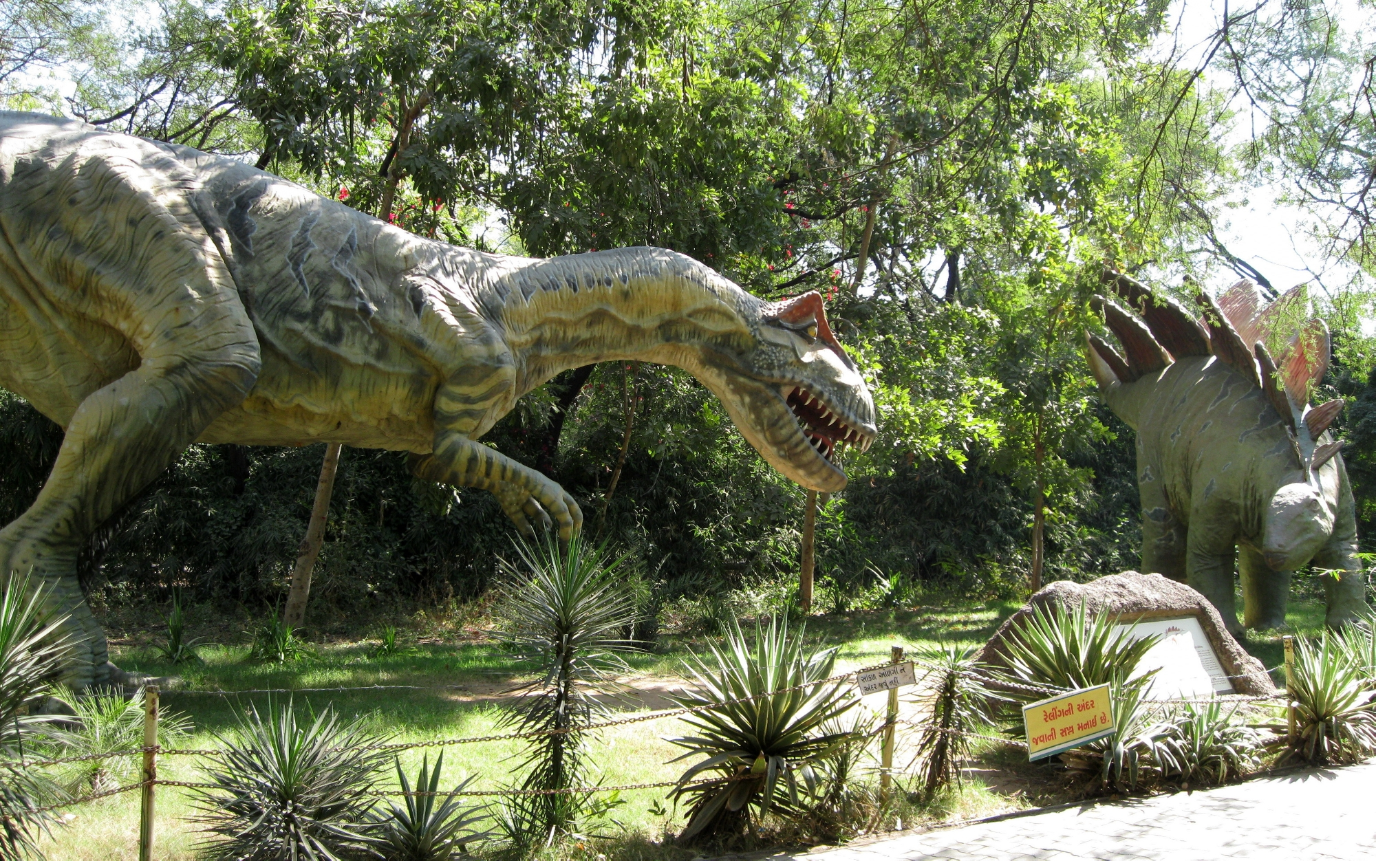 Indroda Dinosaur and Fossil Park, Gandhinagar The Indroda Dinosaur and Fossil Park, or Indroda Nature Park, is located on the bank of Sabarmati river over an area of 400 hectares of land. It is considered as the second largest hatchery of dinosaur eggs in the world. The nature park is run by Gujarat Ecological Education and Research Foundation (GEER) and is the only dinosaur museum in India. The park nicknamed as 'India's Jurassic Park' consists of a zoo, botanical garden, amphitheatre and also has skeletons of many sea mammals which include that of the blue whale. It also has an interpretation centre and provides facilities for camping too.